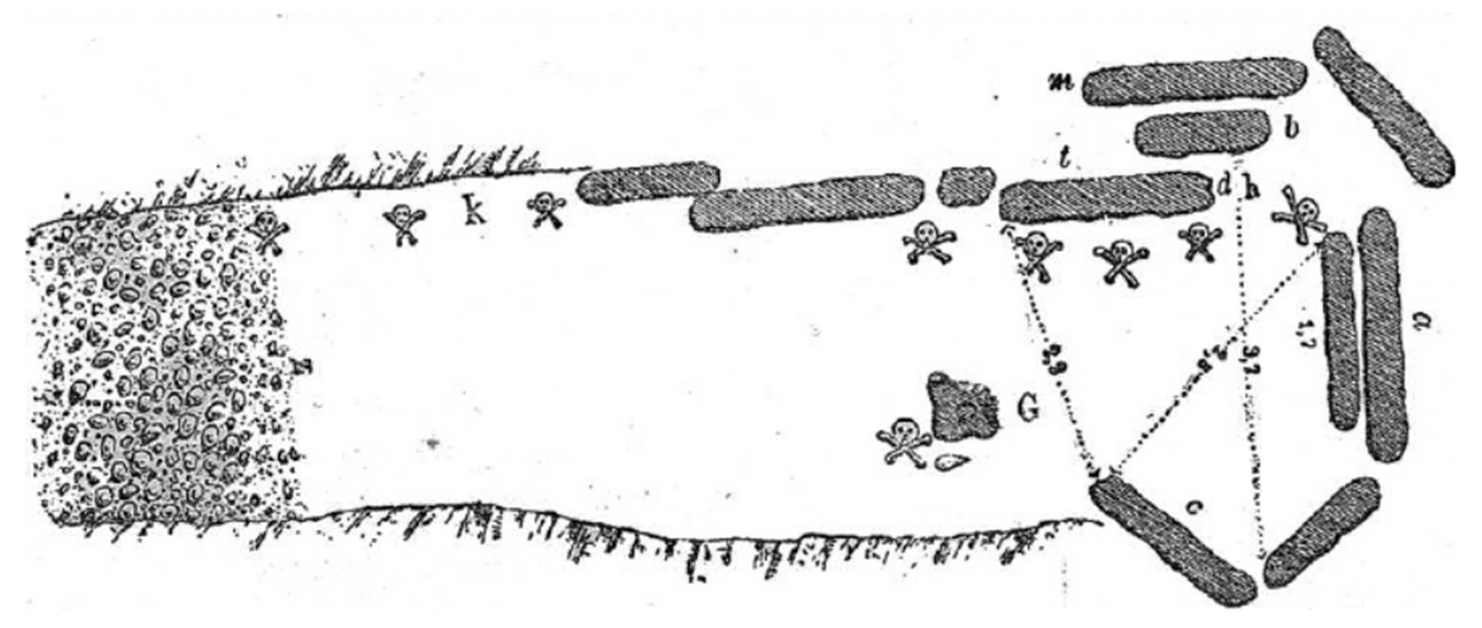 Sketch made in 1880 by Carlos Ribeiro of the Anta do Monte Abraão, a neolithic dolmen in Odivelas, Portugal